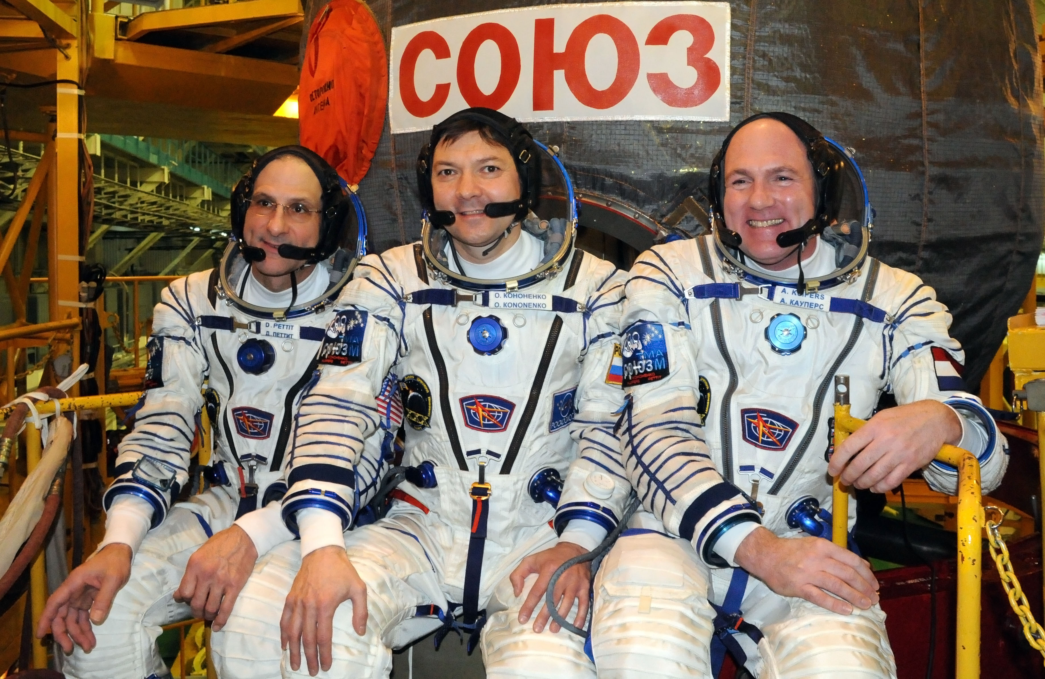 At the Baikonur Cosmodrome in Kazakhstan, the crew members who will round out the Expedition 30 crew on the International Space Station pose for pictures in front of their Soyuz TMA-03 spacecraft during a dress rehearsal fit check Dec. 9, 2011. NASA Flight Engineer Don Pettit (left), Soyuz Commander Oleg Kononenko (center) and Flight Engineer Andre Kuipers of the European Space Agency (right) are scheduled to launch Dec. 21 from Baikonur to the space station.